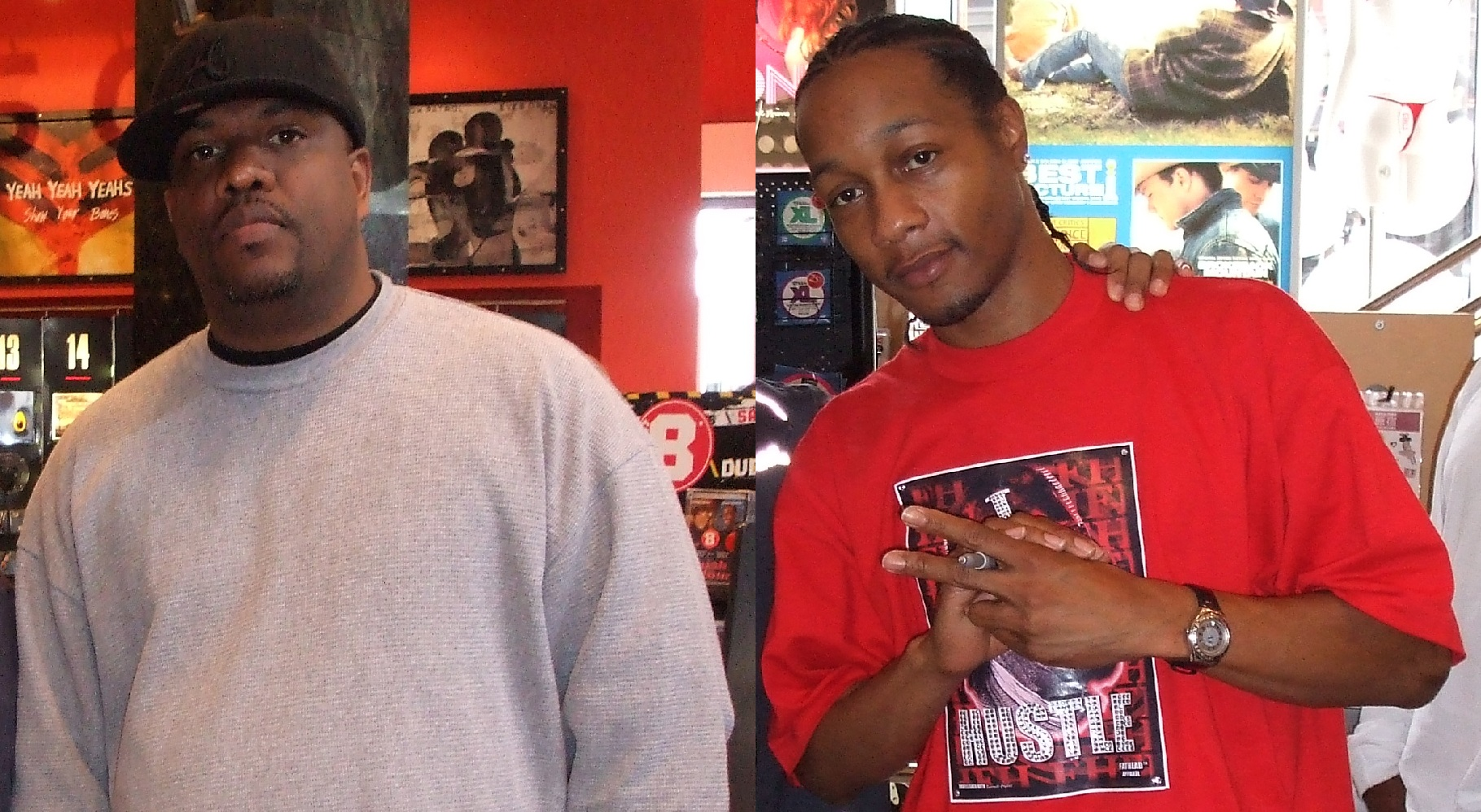 Composite image of The Fixxers.